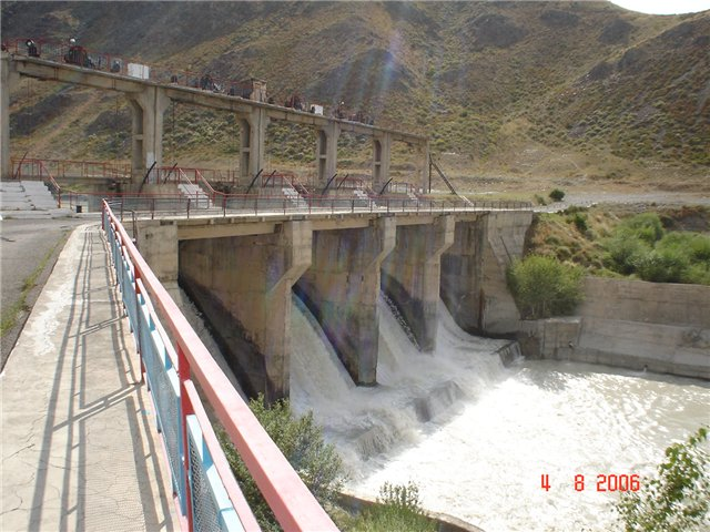 U4ges